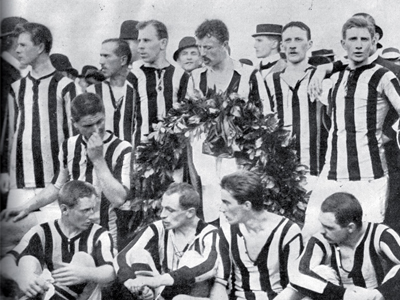 The Karlsruher FC Phoenix soccer team after winning the final on May 30, 1909 in Breslau (Wrocław).